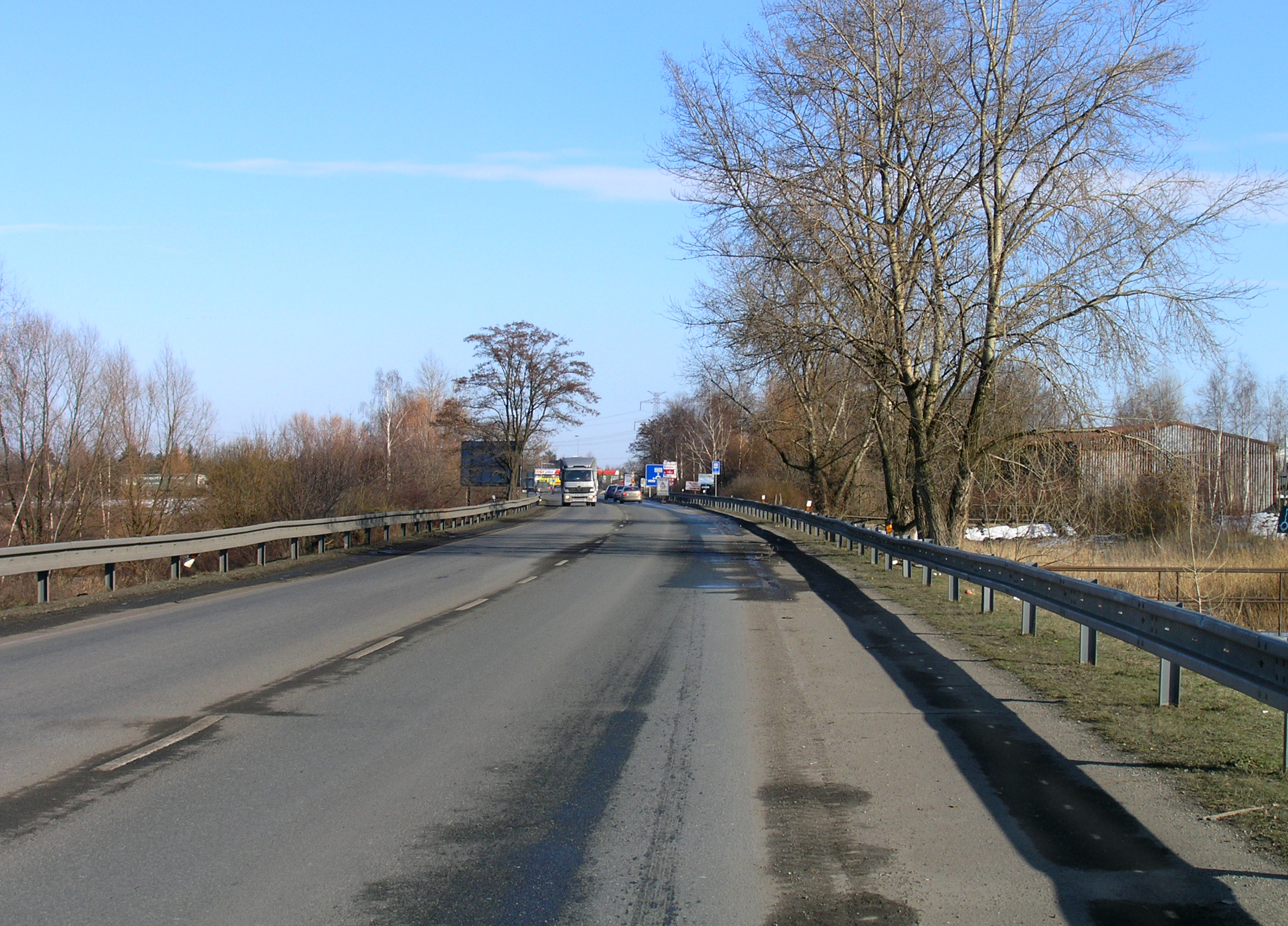 Kunratická spojka street in Kunratice, Prague